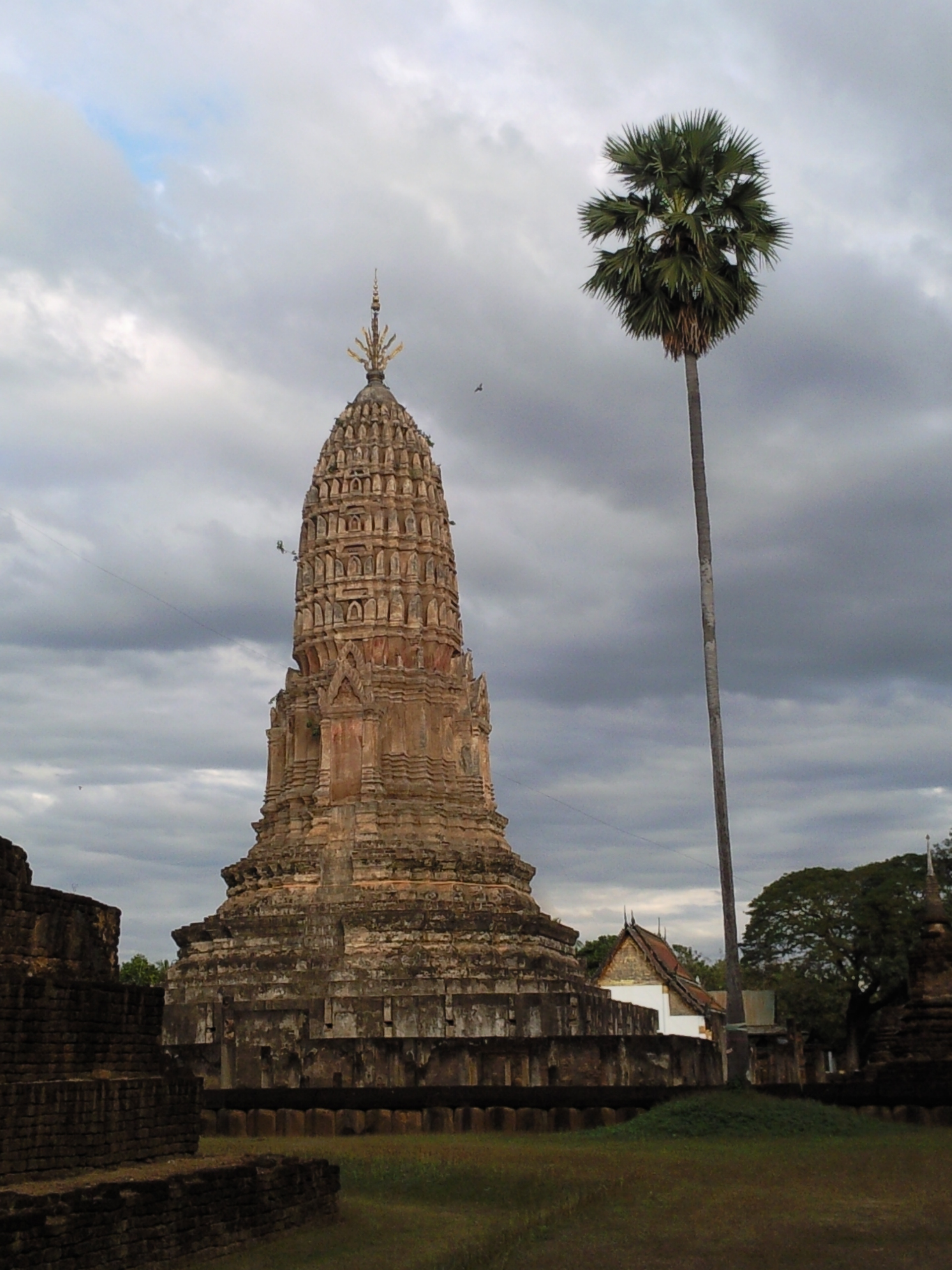 Wat Phra Si Rattana Maha That Chaliang, Si Satchanalai Historical Park, Sukhothai Province